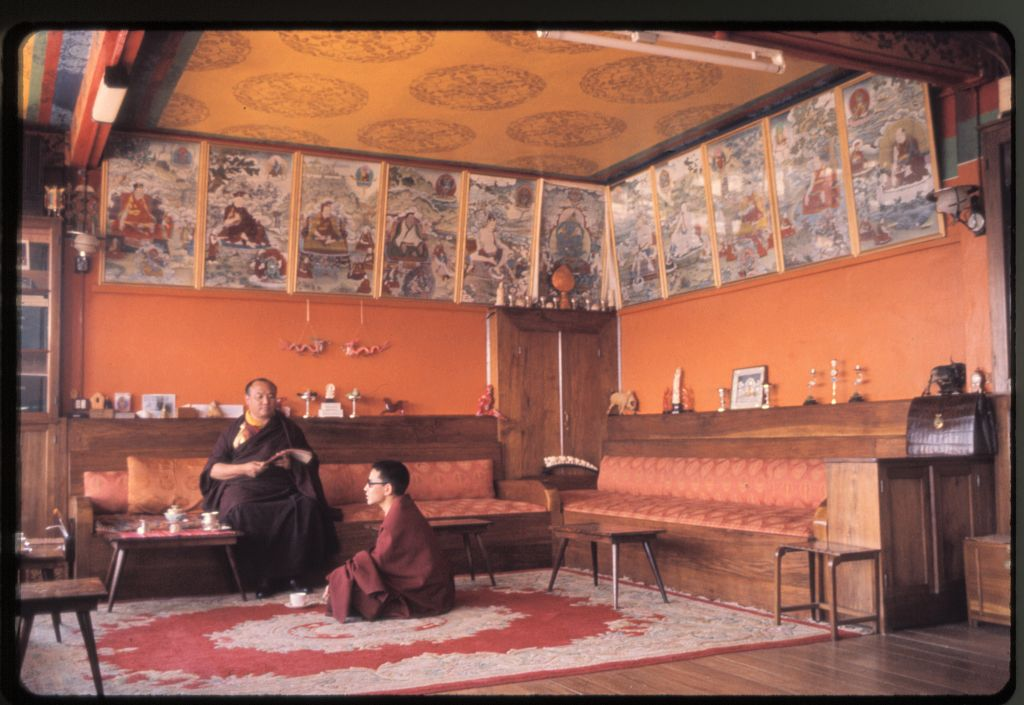 The sixteenth Karmapa (Rangjung Rigpe Dorje), with monk, at Rumtek Monastery, Sikkim